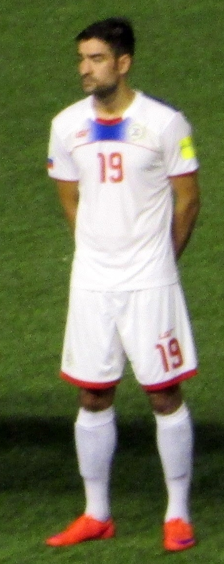 Jerry Lucena with the Philippine national team. Philippines v. Maldives friendly. September 3, 2015.